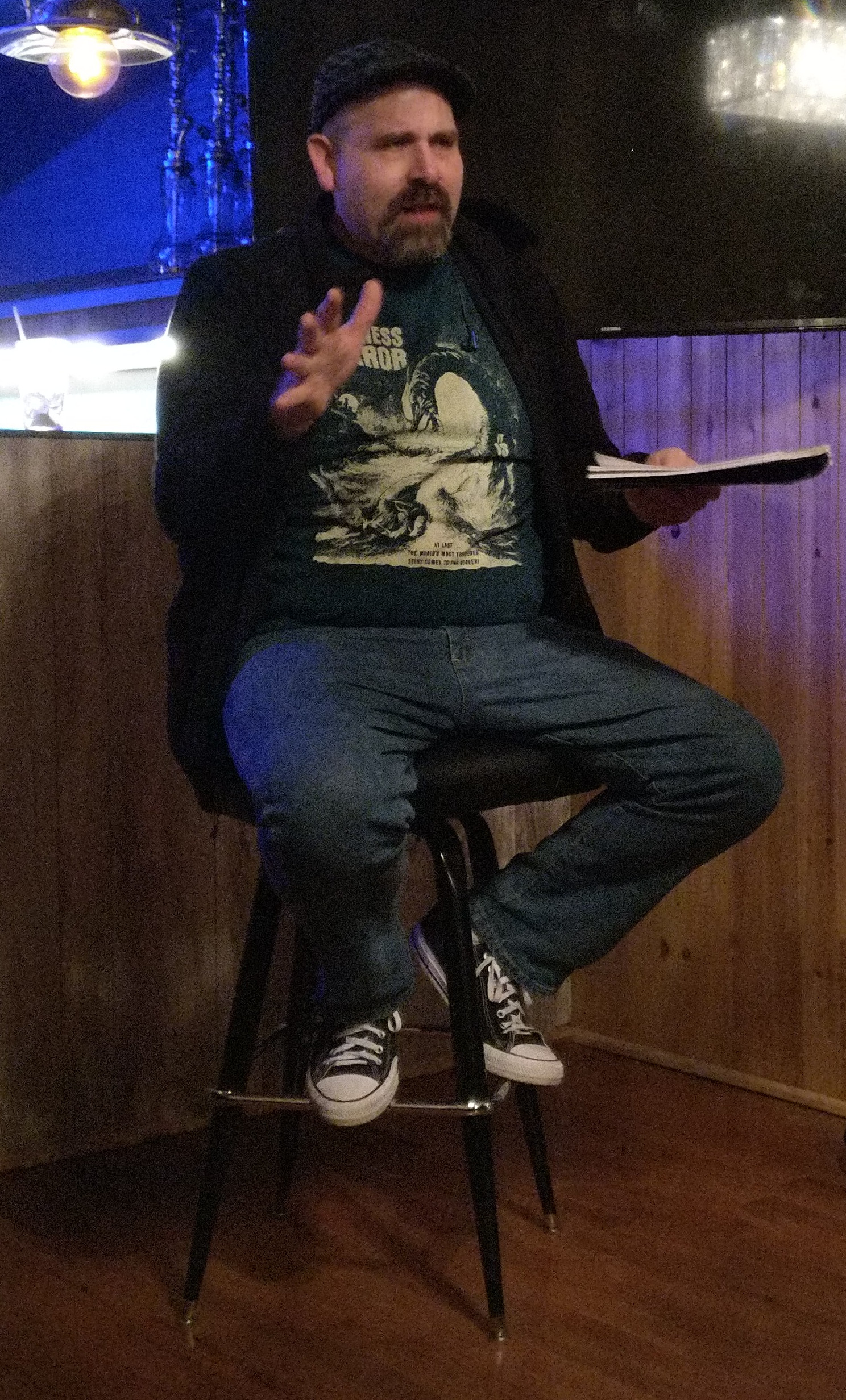 Blake Smith speaking about "Fighting Nonsense with Skepticism" on 6 March 2018 in Marietta, Georgia, US